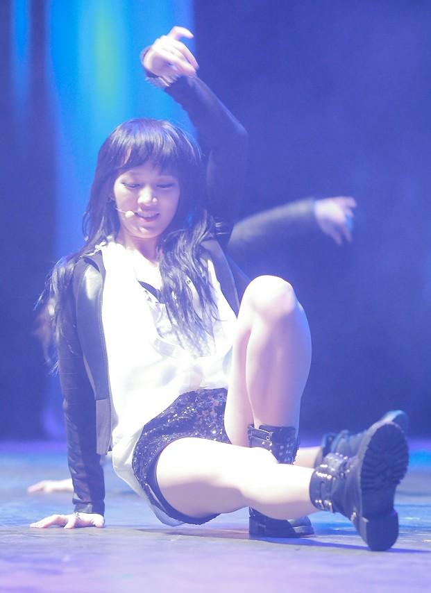 Meng Jia at Seoul Art School in 2012